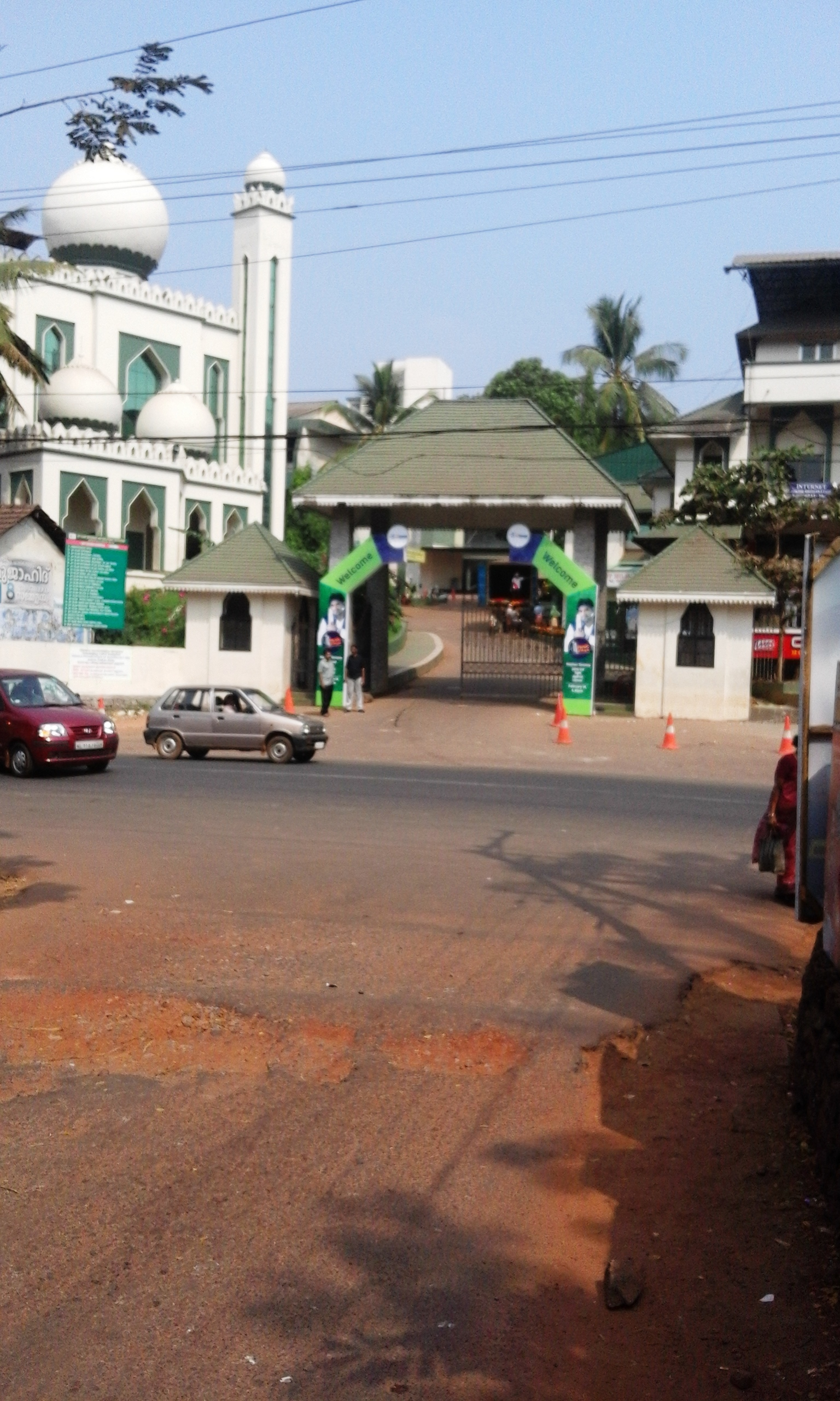 Kozhikode, Kerala province, India.